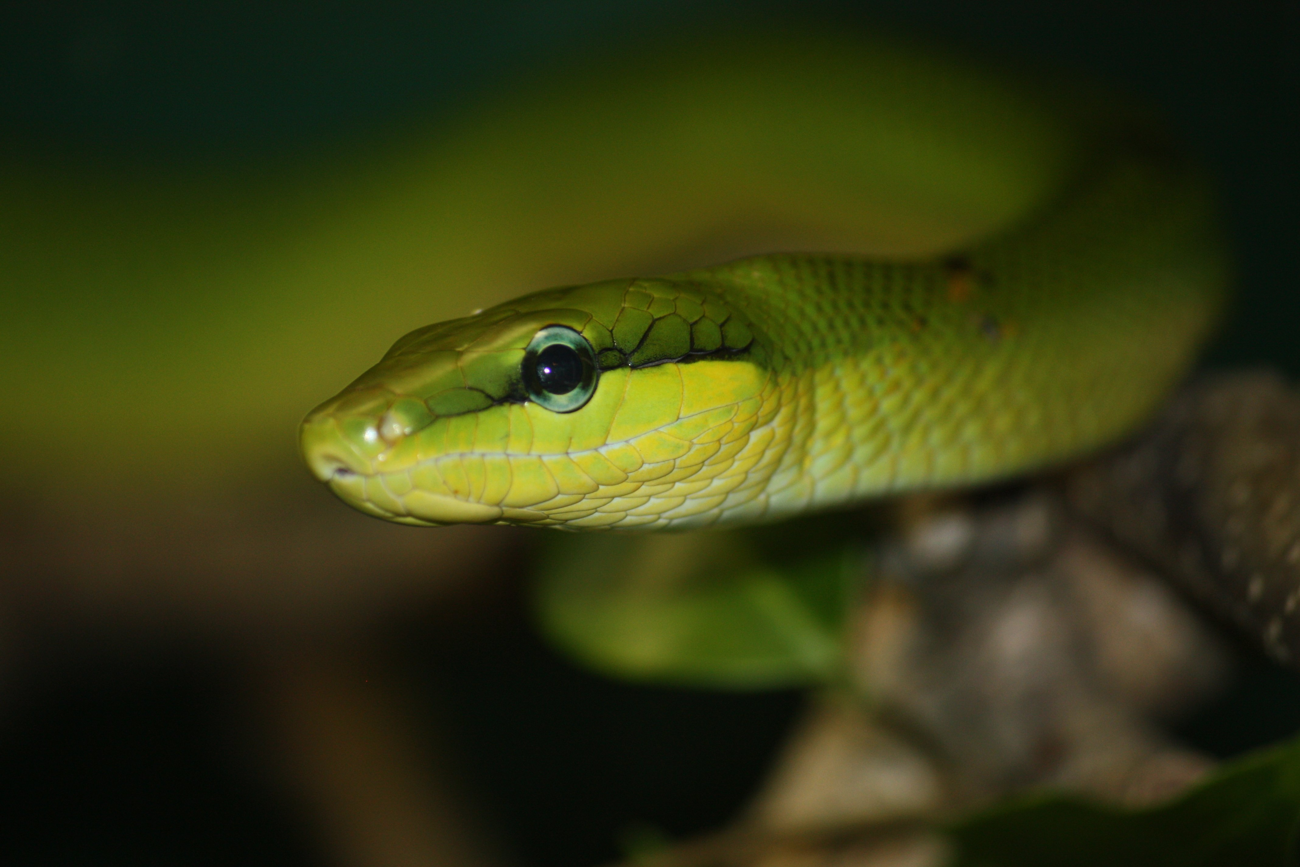 Red-tailed Green Ratsnake Elaphe oxycephala at Louisville Zoo